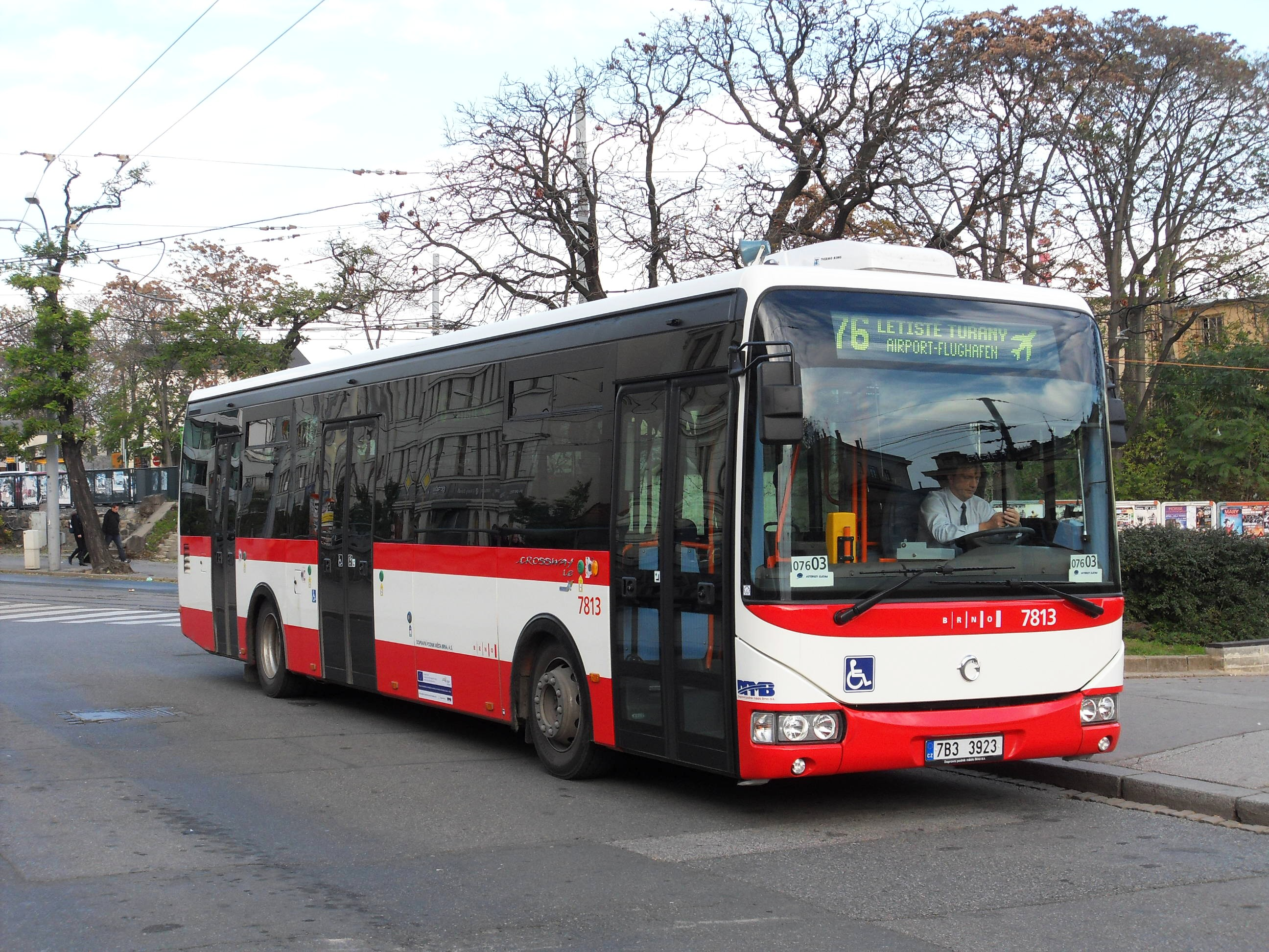 Irisbus Crossway LE 12M bus No. 7813 of Dopravní podnik města Brna, Brno, Czech Republic